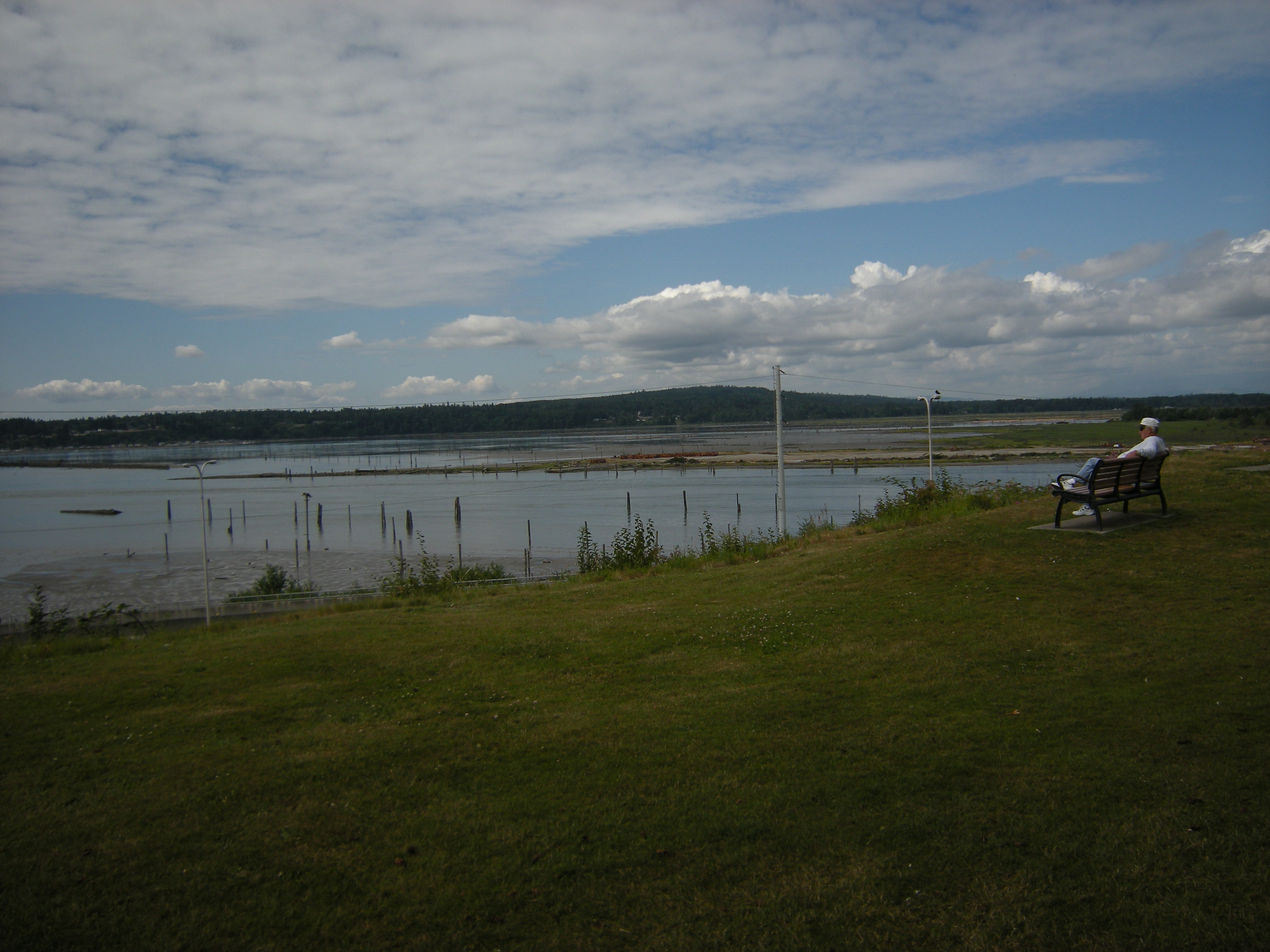 View from Legion Park, Everett, Washington. This is one of a series of views giving a panorama of Port Gardner Bay.